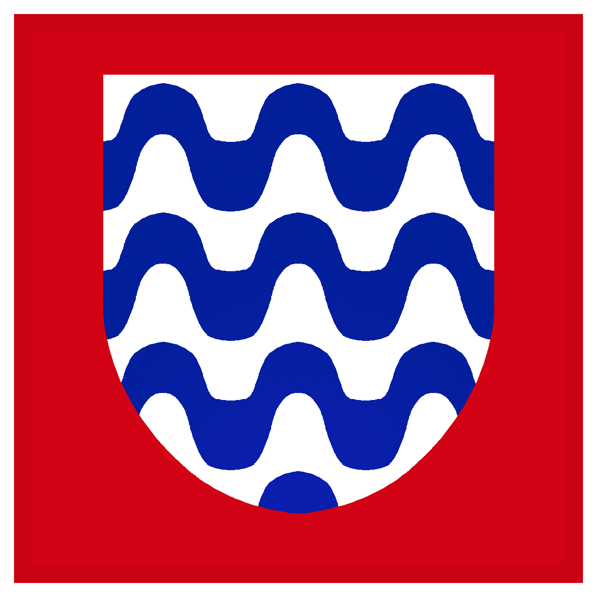 US Army 15th Army Group Shoulder Sleeve Insignia